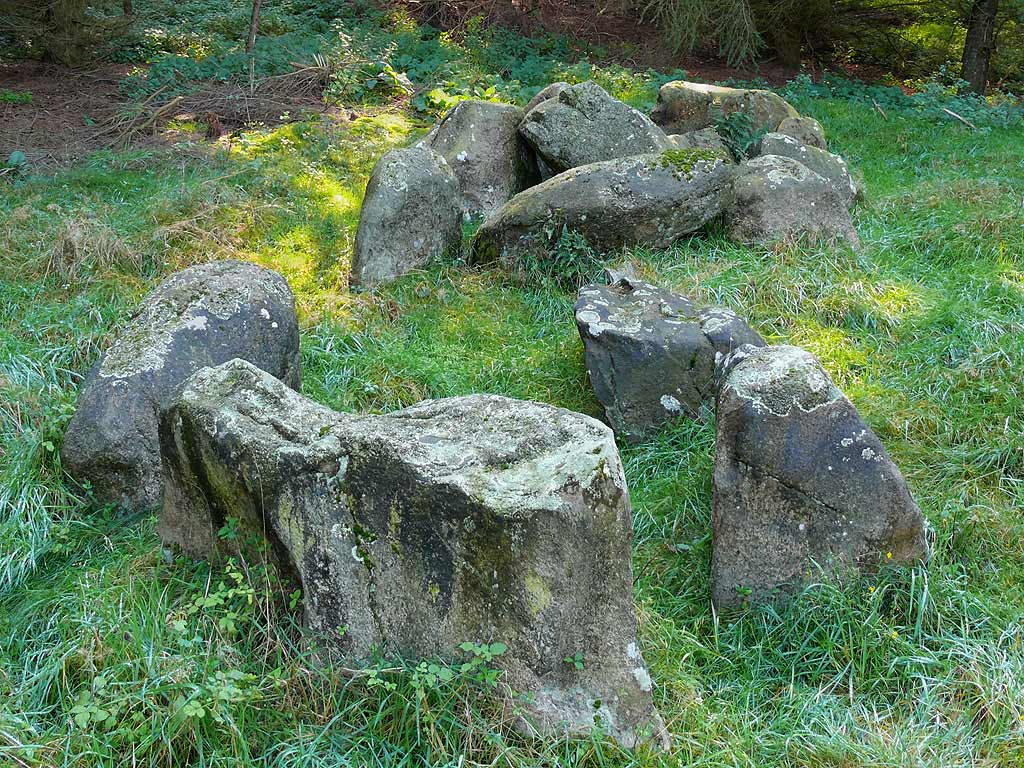 Steinloger Kellersteine 1